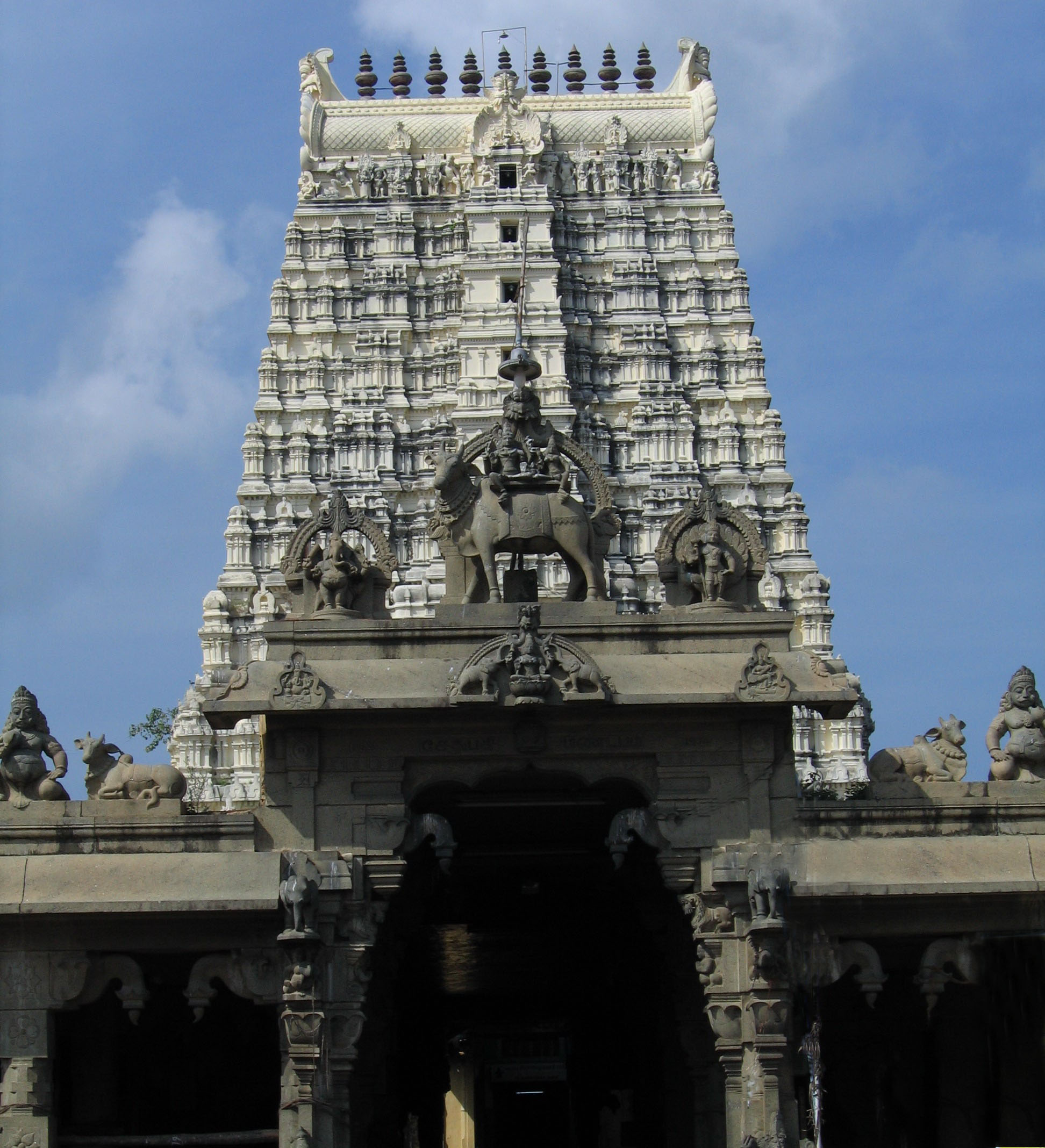 The East Gopuram of Rameswaram Temple. Photo taken by me on 28th Dec 2006.